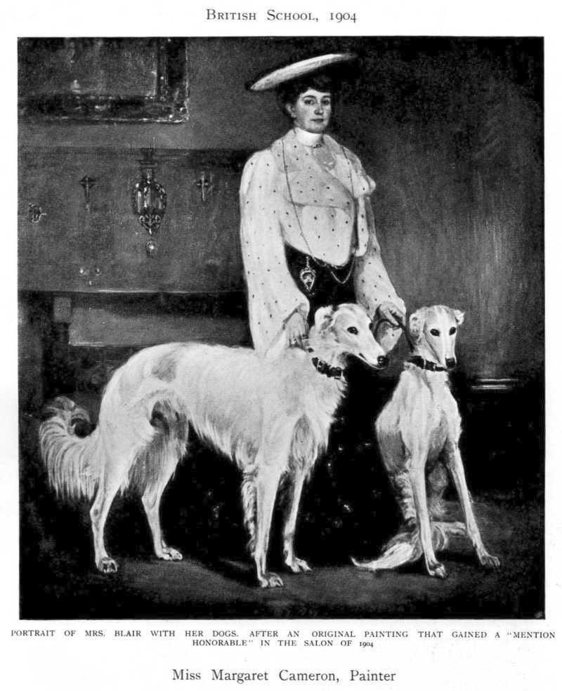 1905 print after page of Women painters of the world, from the time of Caterina Vigri, 1413-1463, to Rosa Bonheur and the present day, by Walter Shaw Sparrow, The Art and Life Library, Hodder & Stoughton, 27 Paternoster Row, London